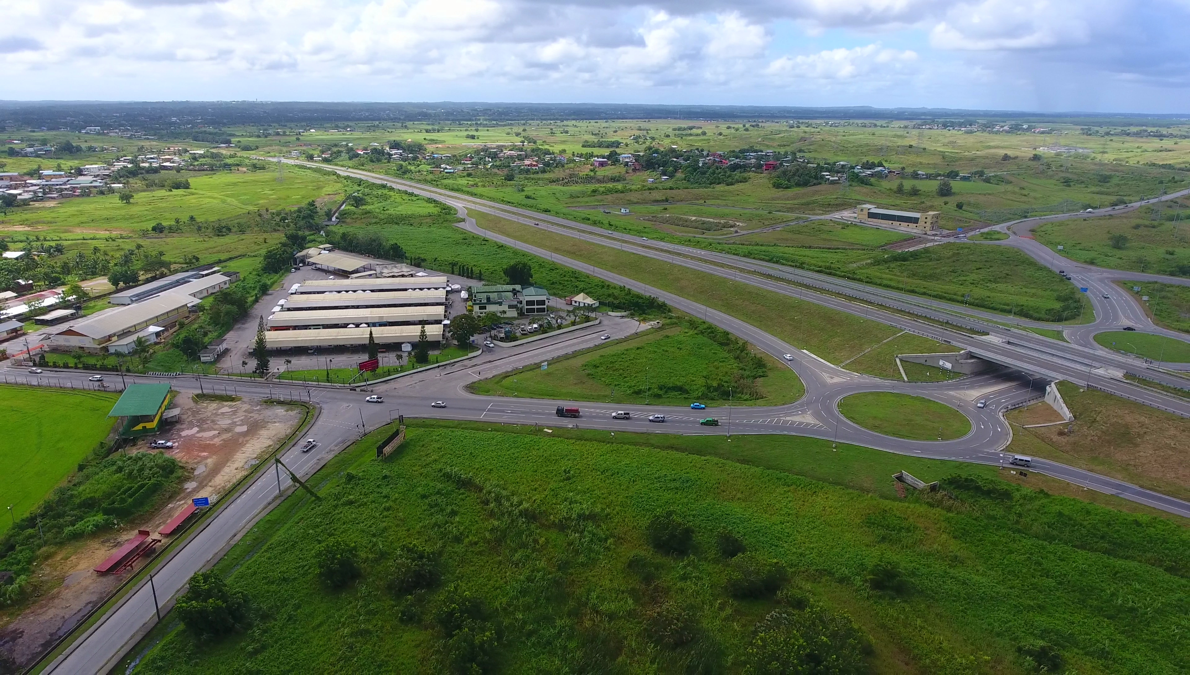 Sir Solomon Hochoy Highway, Debe, Penal-Debe, Trinidad and Tobago. Debe intersection, looking south-southwest. In the left half: Debe market. Photo taken as part of the Southern Trinidad Aerial Photo Project, a small project sponsored by WMDE. Drone used: DJI Phantom 4. Snapshot taken from video footage via VLC.